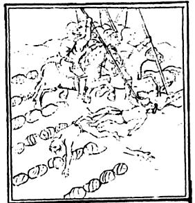 Scene of Calacoayan massacre depicted in the Florentine Codex